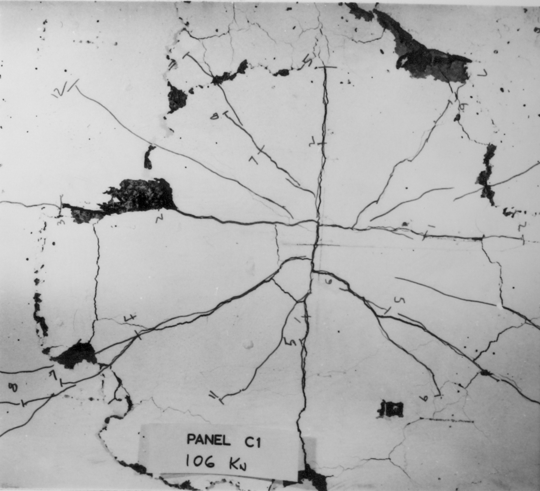 Bottom surface crack pattern of punching failure zone in model bridge deck test;Other information: this photograph has not previously been published